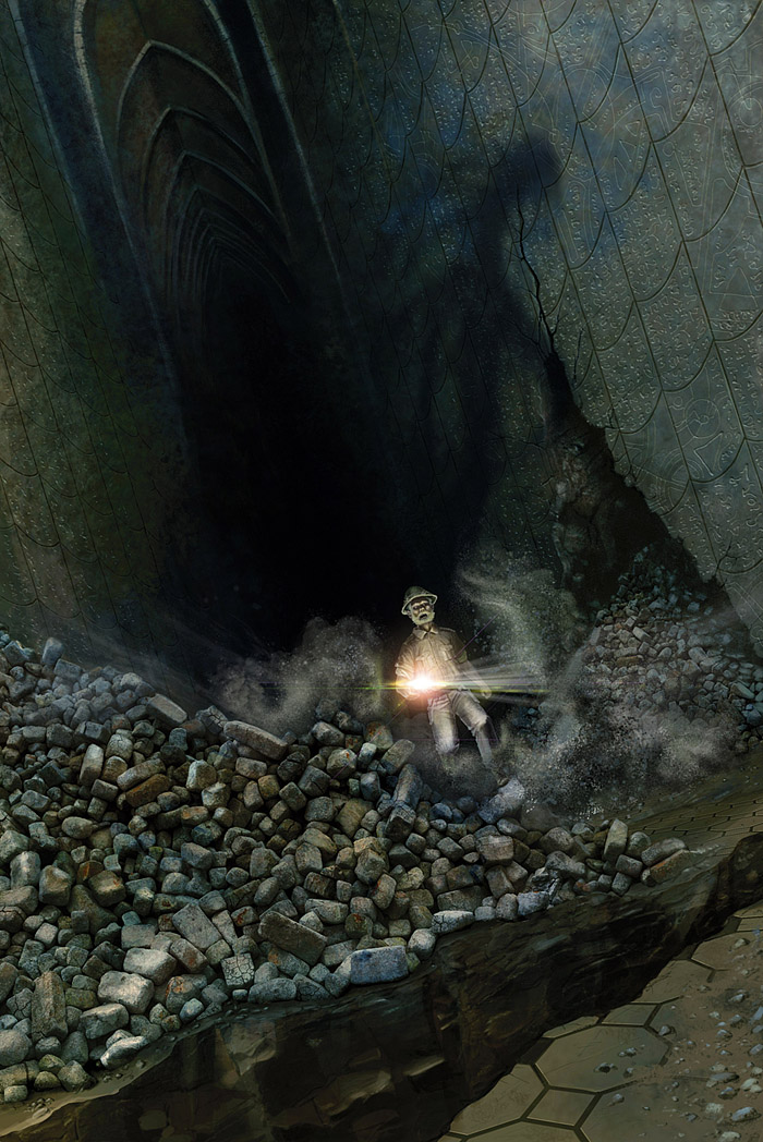 Meelis Kroshetskin's artwork based on H. P. Lovecraft's story The Shadow Out of Time. Cover of the book Vari aja sügavusest published by Kirjastus Fantaasia (